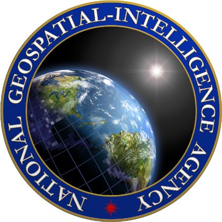 National Geospatial-Intelligence Agency (NGA) of the United States Seal of the The globe symbolizes the totality of the mission. Its pixilization symbolizes the Agency's background in imagery analysis, while the grid evokes mapping. The radiating star above the Earth is showing the way toward new concepts, technology and products. The day and night depiction suggests the round-the-clock nature of NGA's work. The new seal includes a red compass, also found on the CIA seal. The compass or star, as some call it, has 16 points. These represent the worldwide search for geospatial intelligence and the navigational mission.